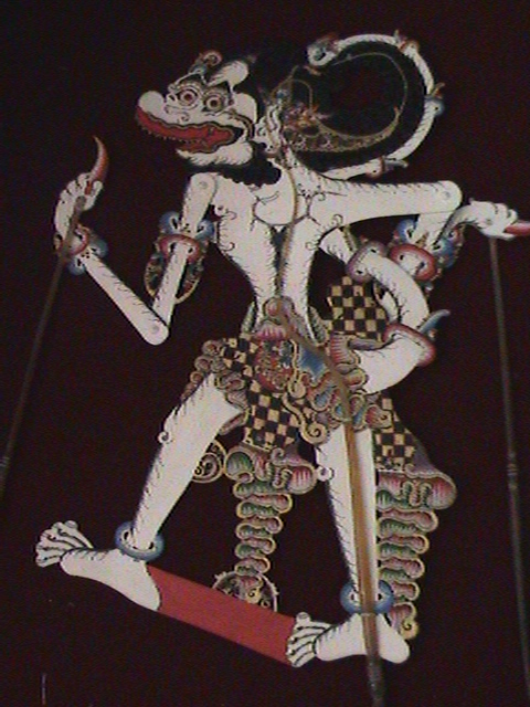 Representation of Hanuman